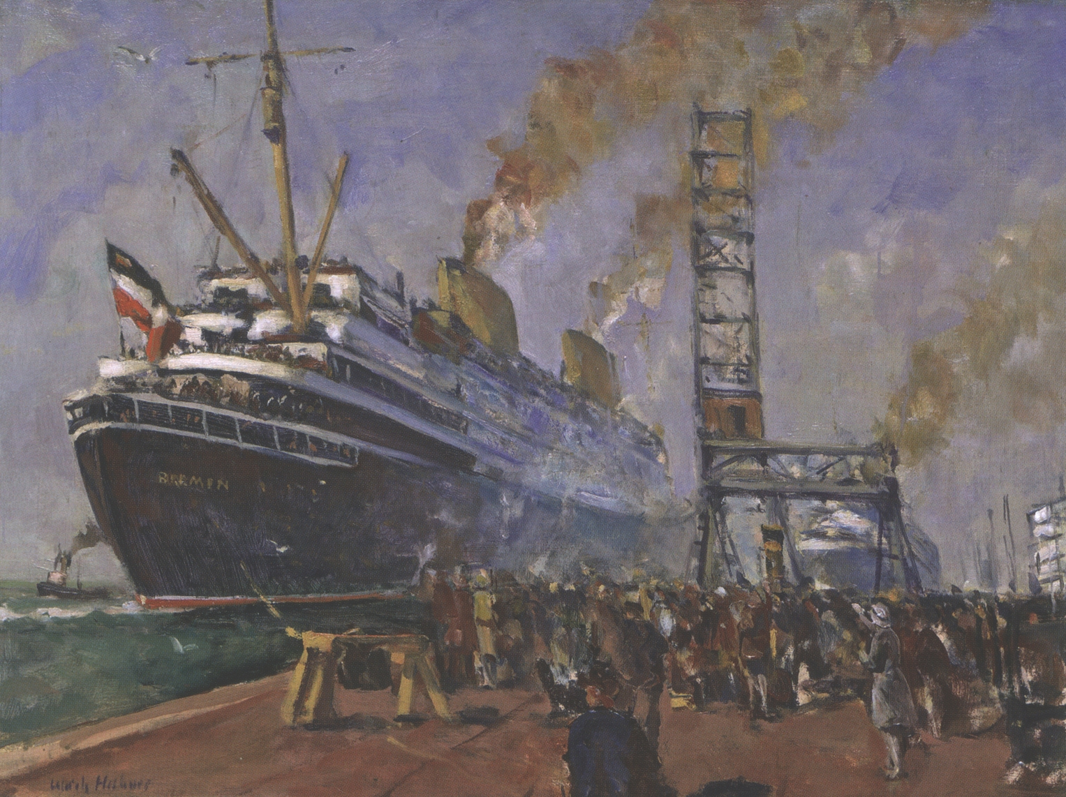 The passenger ships Bremen and Europa at the Columbuskaje in Bremerhaven, painting by Ulrich Hübner (1872-1932)